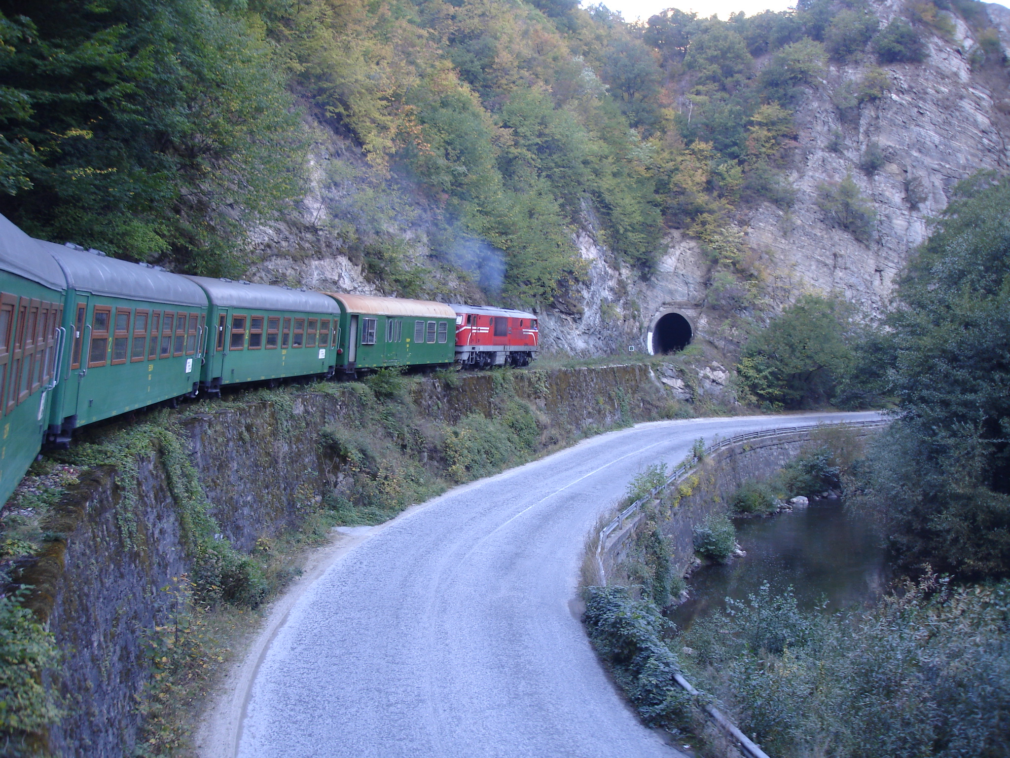 Train along the narrow gauge line from Semptemvri to Dobrinihte